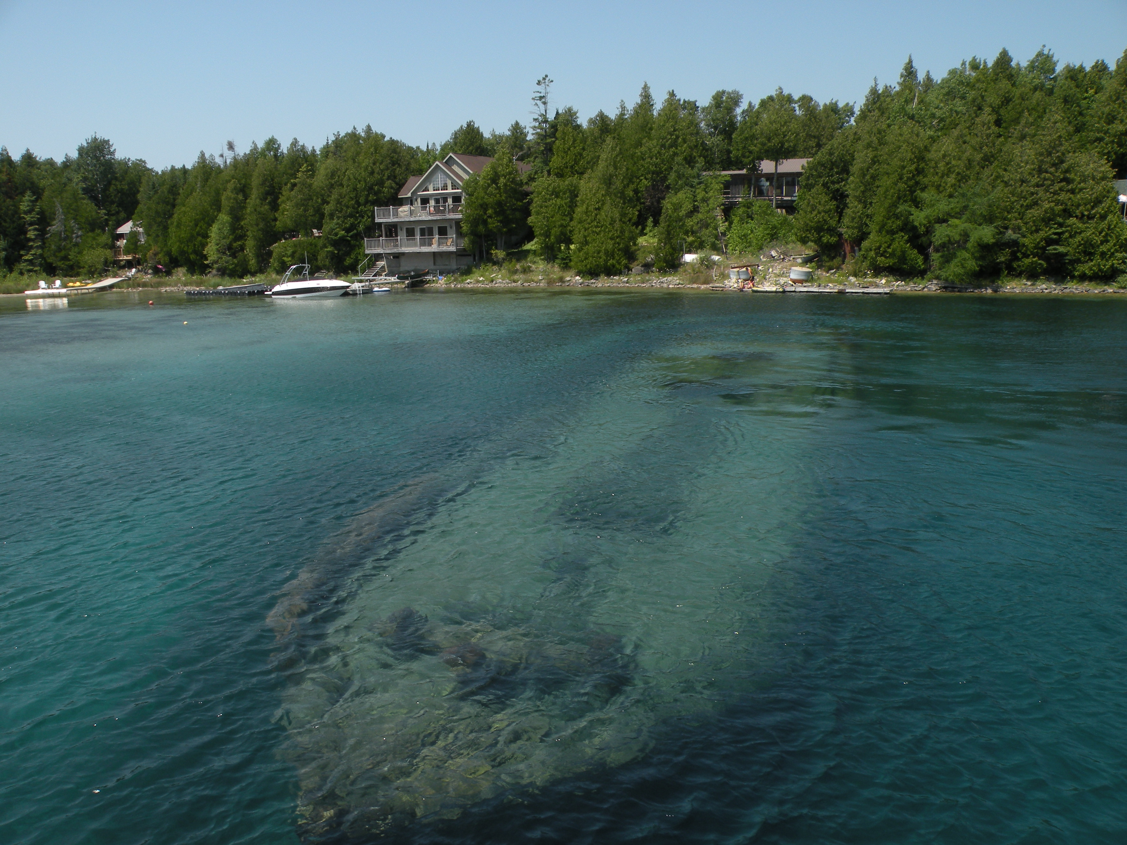 A wreck in Big Tub Harbour, in Fathom Five National Marine Park.